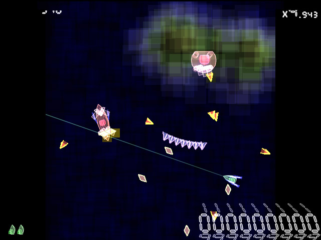 Screenshot of the freeware video game Gunroar